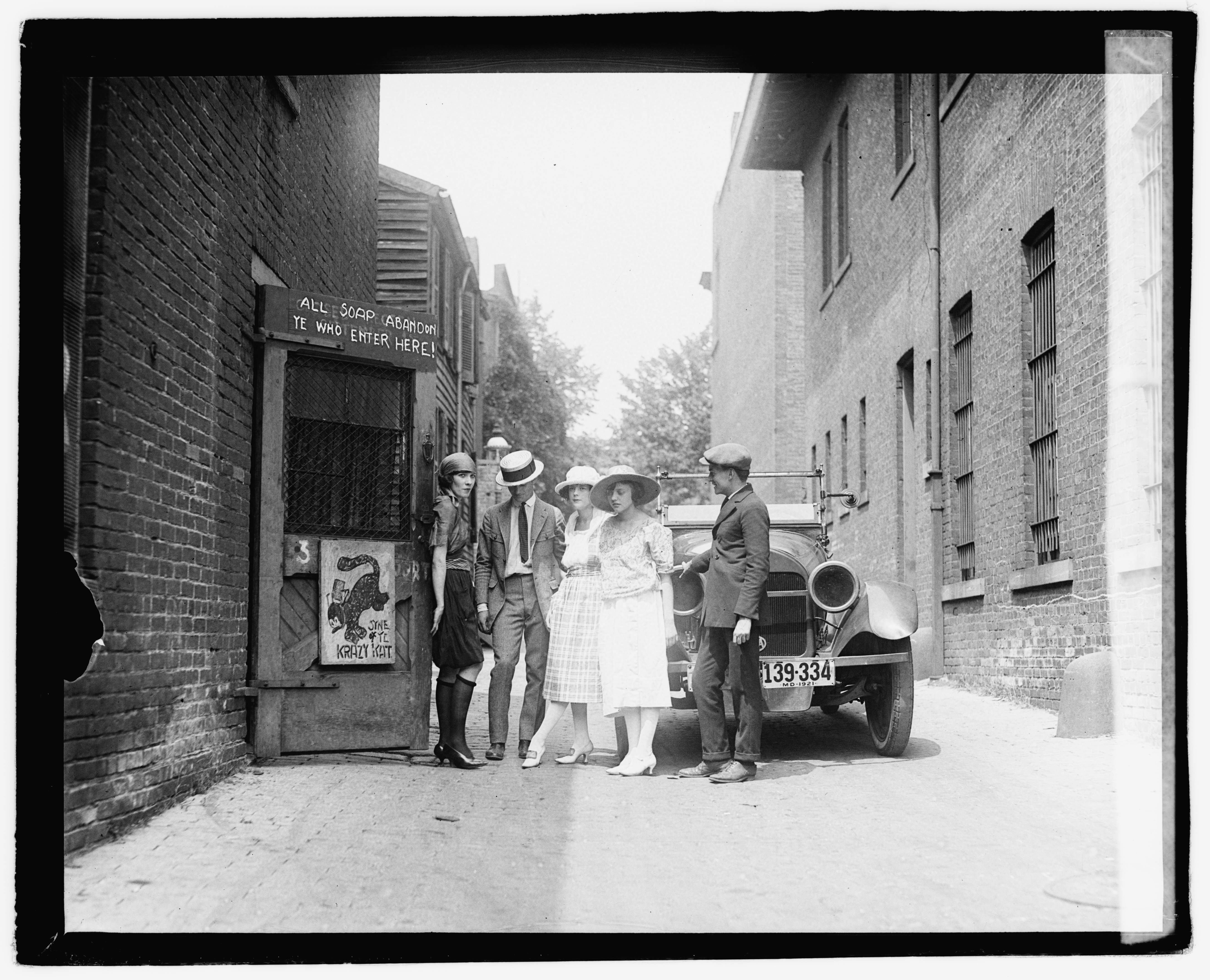 Title: Krazy Kat Abstract/medium: National Photo Company Collection (Library of Congress) Physical description: 1 negative